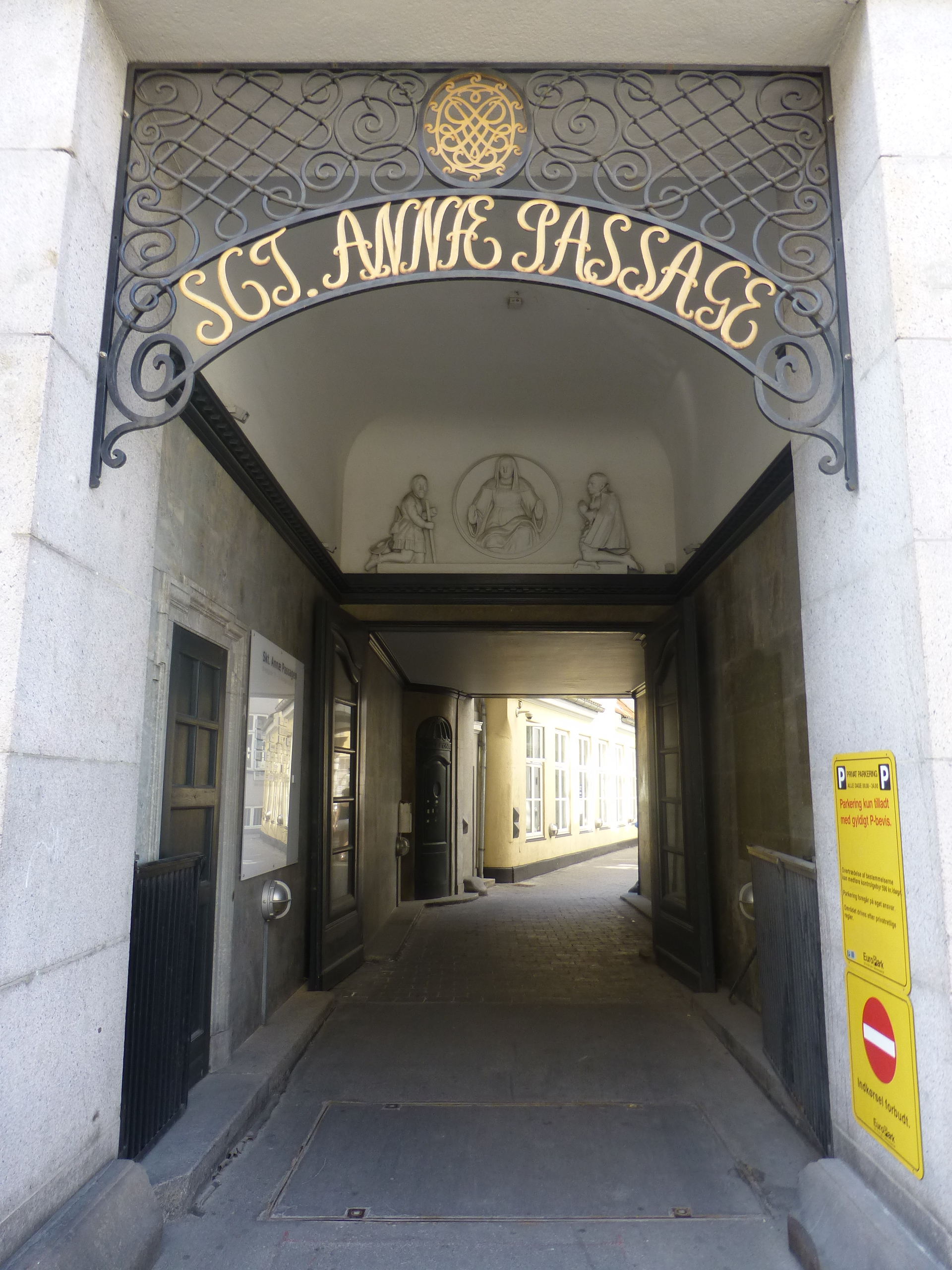 The passageway Sankt Annæ Passage in Indre By, Copenhagen. Entrance from Bredgade.